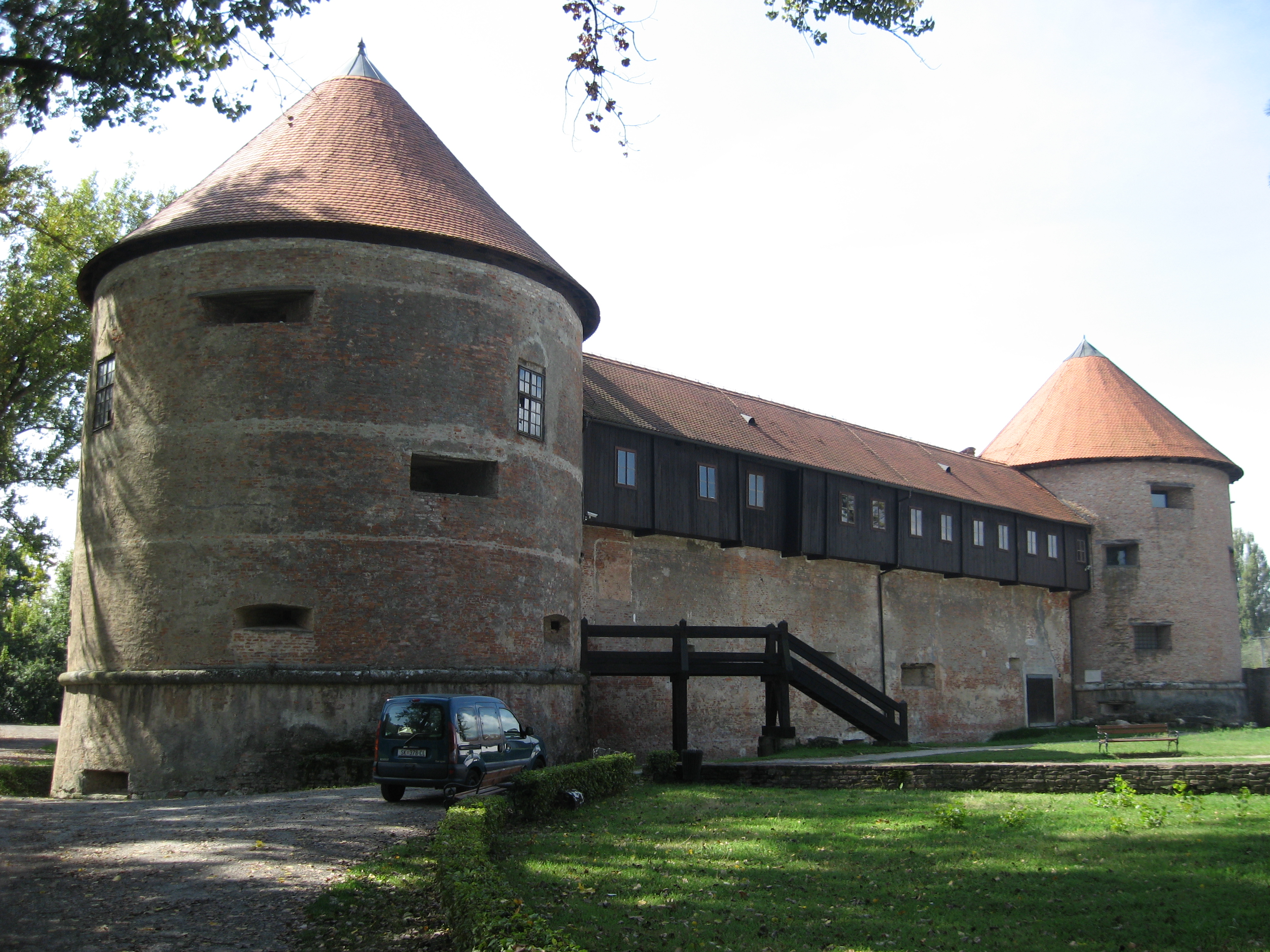 Sisak_fortress (Croatia)